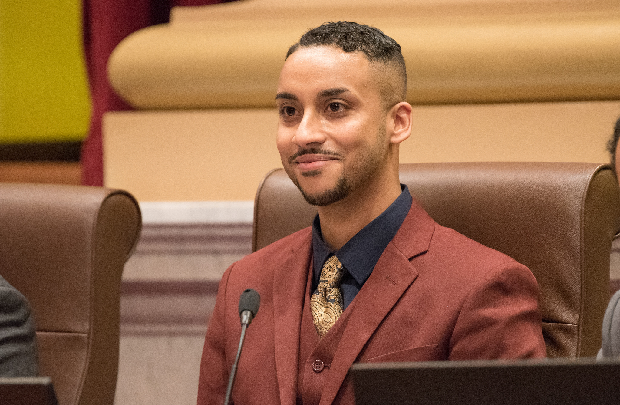 Phillipe Cunningham, Minneapolis City Council Member